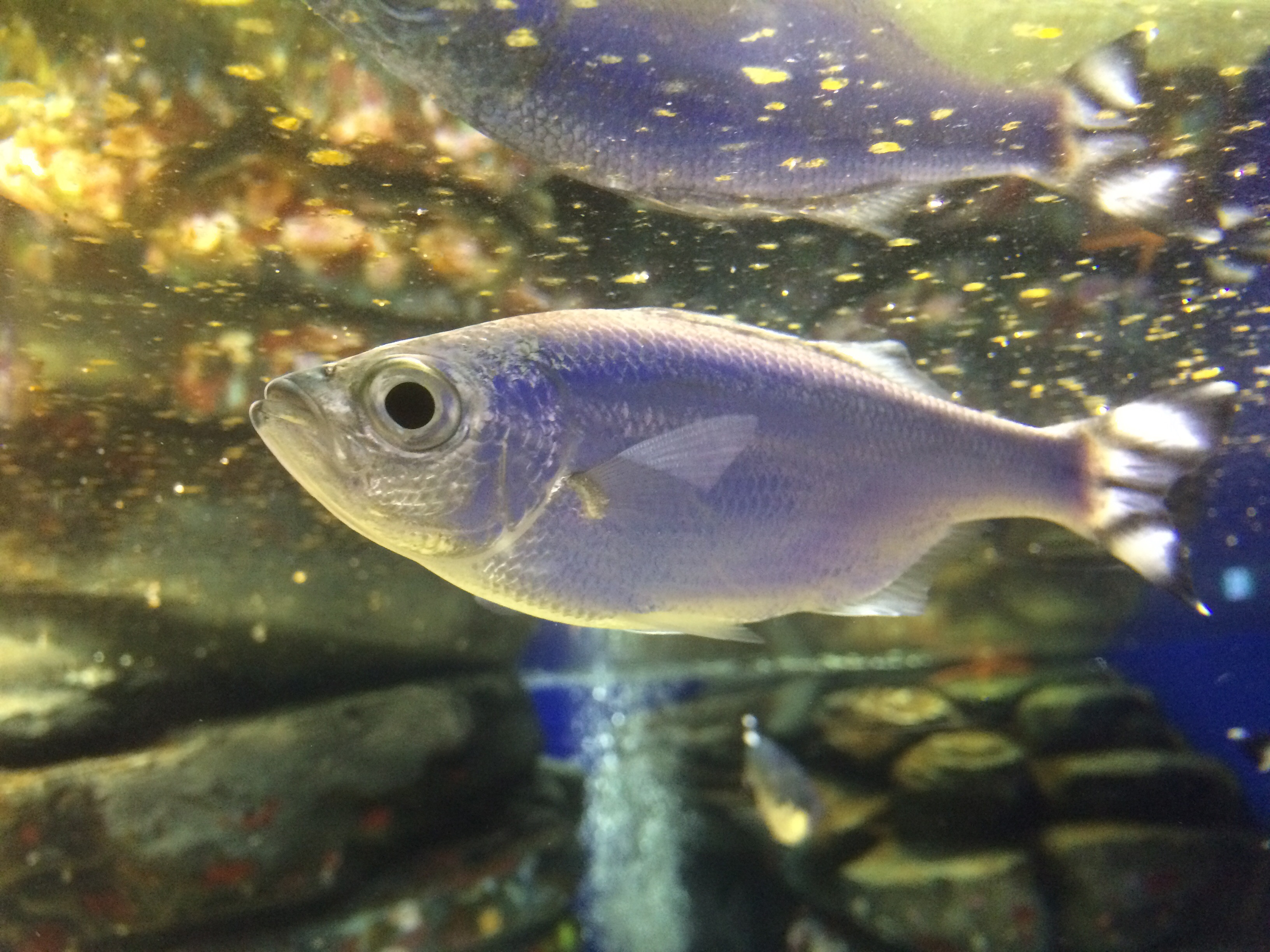 Kuhlia mugil in Adachi park of living things, Japan